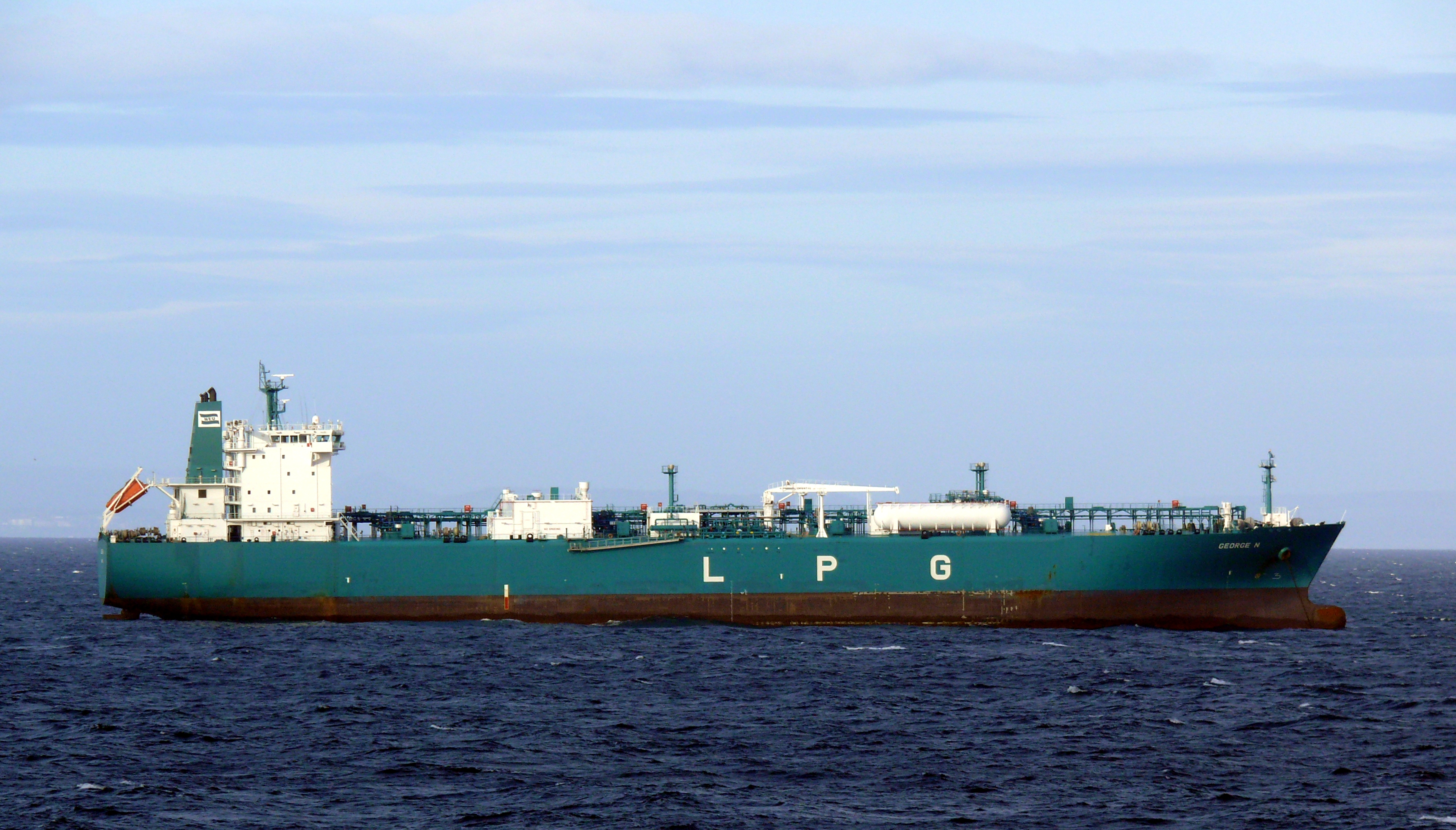 LPG tanker George N on the North Sea. Name of ship : GEORGE N (since 01-02-2009) Call Sign : A8PQ5 MMSI : 636013814 IMO: 9377224 Gross tonnage : 36459 (since 01-02-2009) DWT : 43601 Type of ship : LPG Tanker (since 01-02-2009) Year of build : 2009 Flag : Liberia Information from on 7 July 2011.